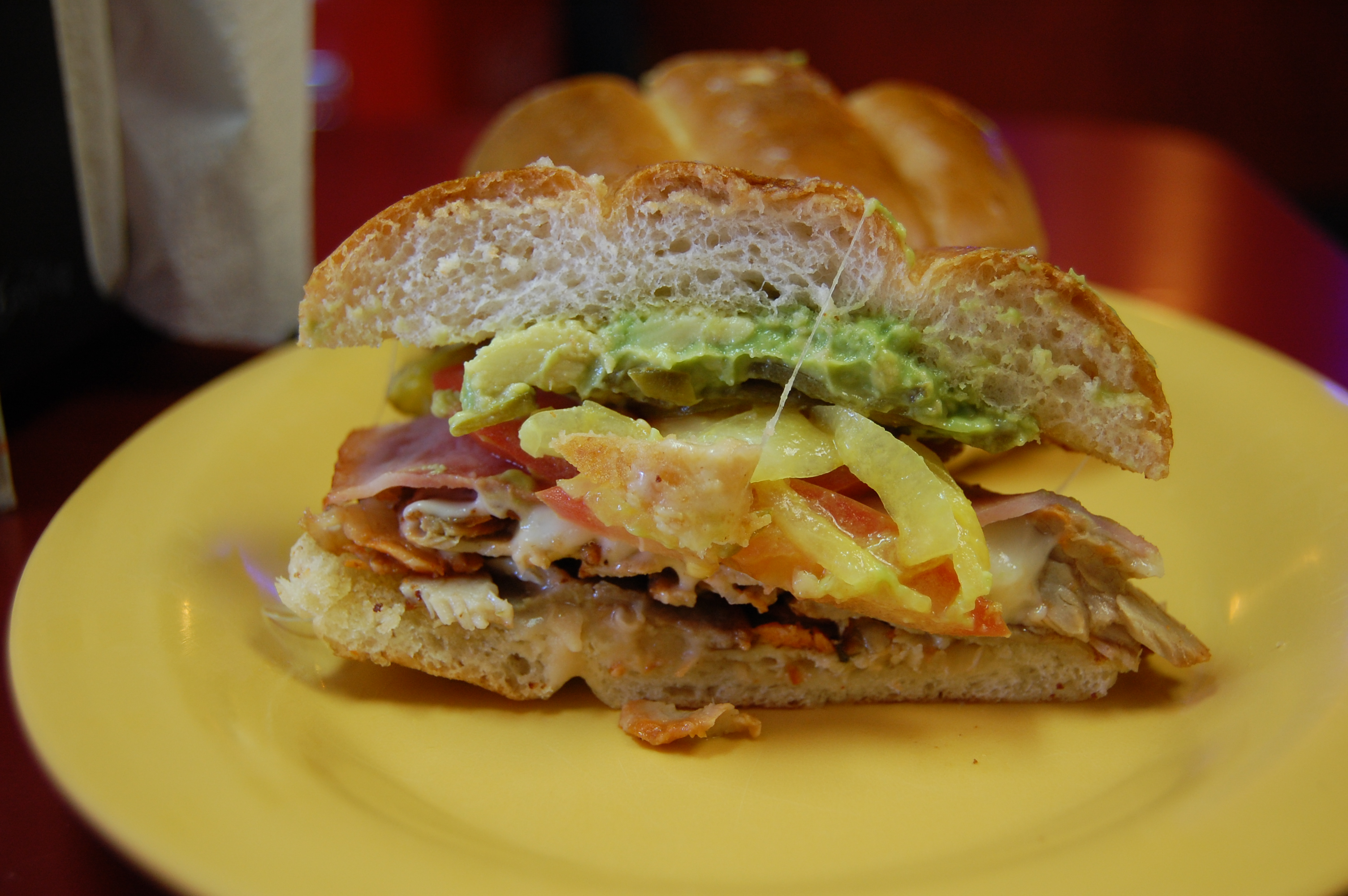 pork loin and ham. It was called the Cubana. Los Reyes De La Torta also had an excellent horchata that I didn't photograph.